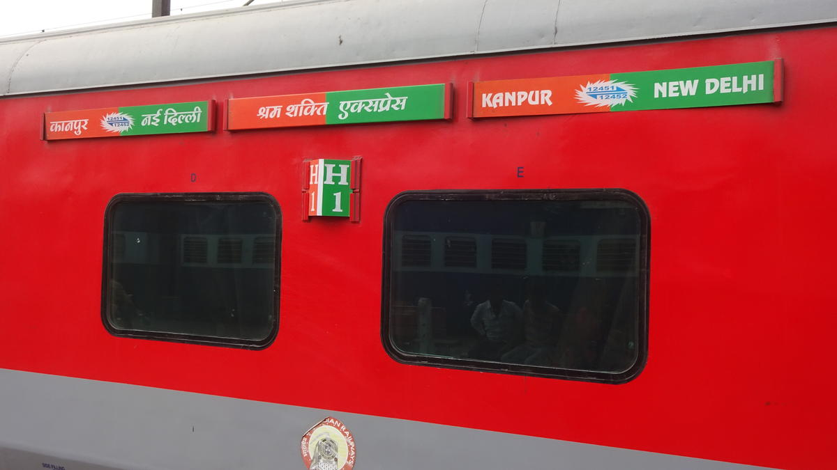 Newly LHBfied Beautiful Image of Shram Shakti Express